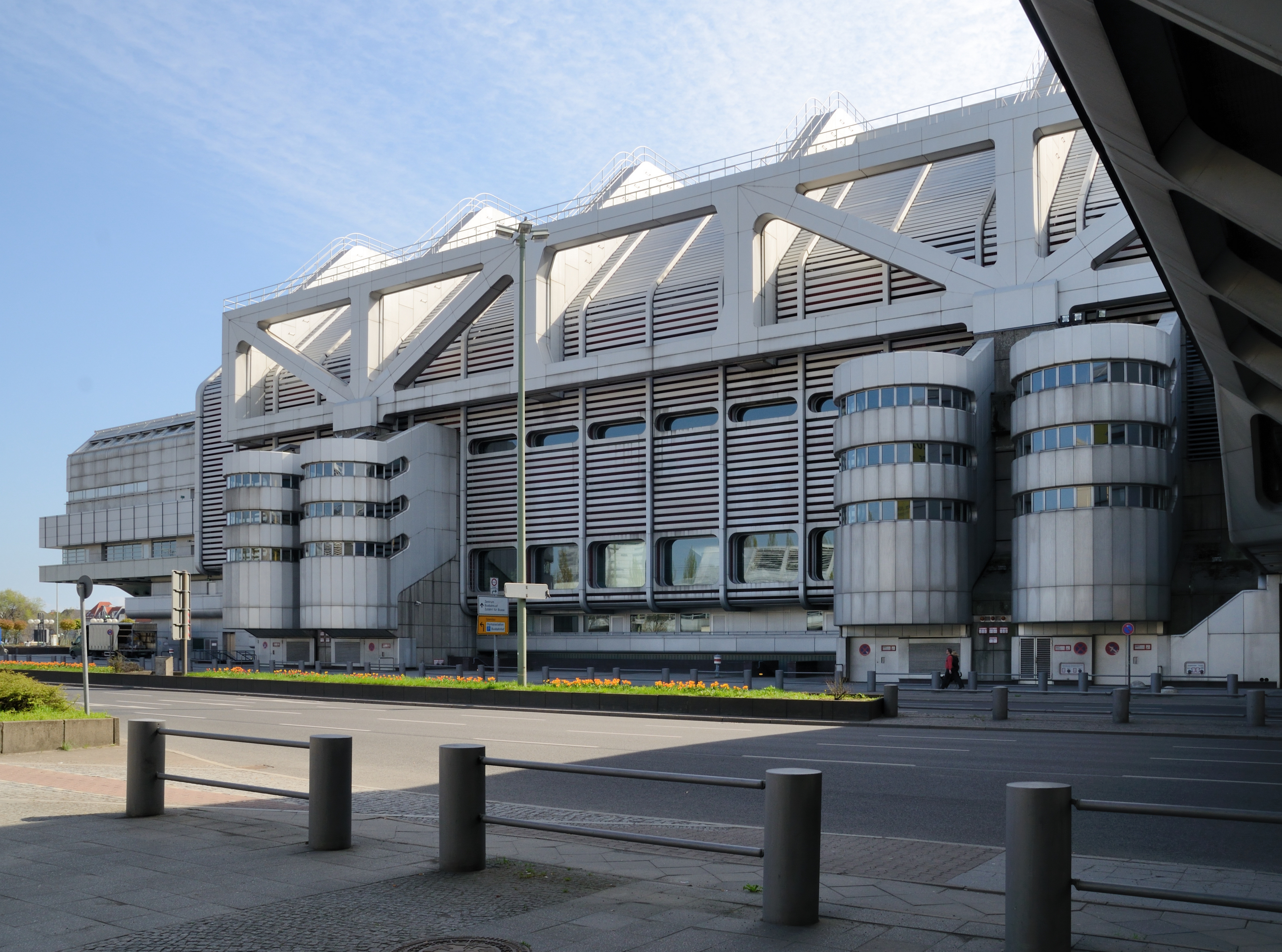 Berlin: ICC